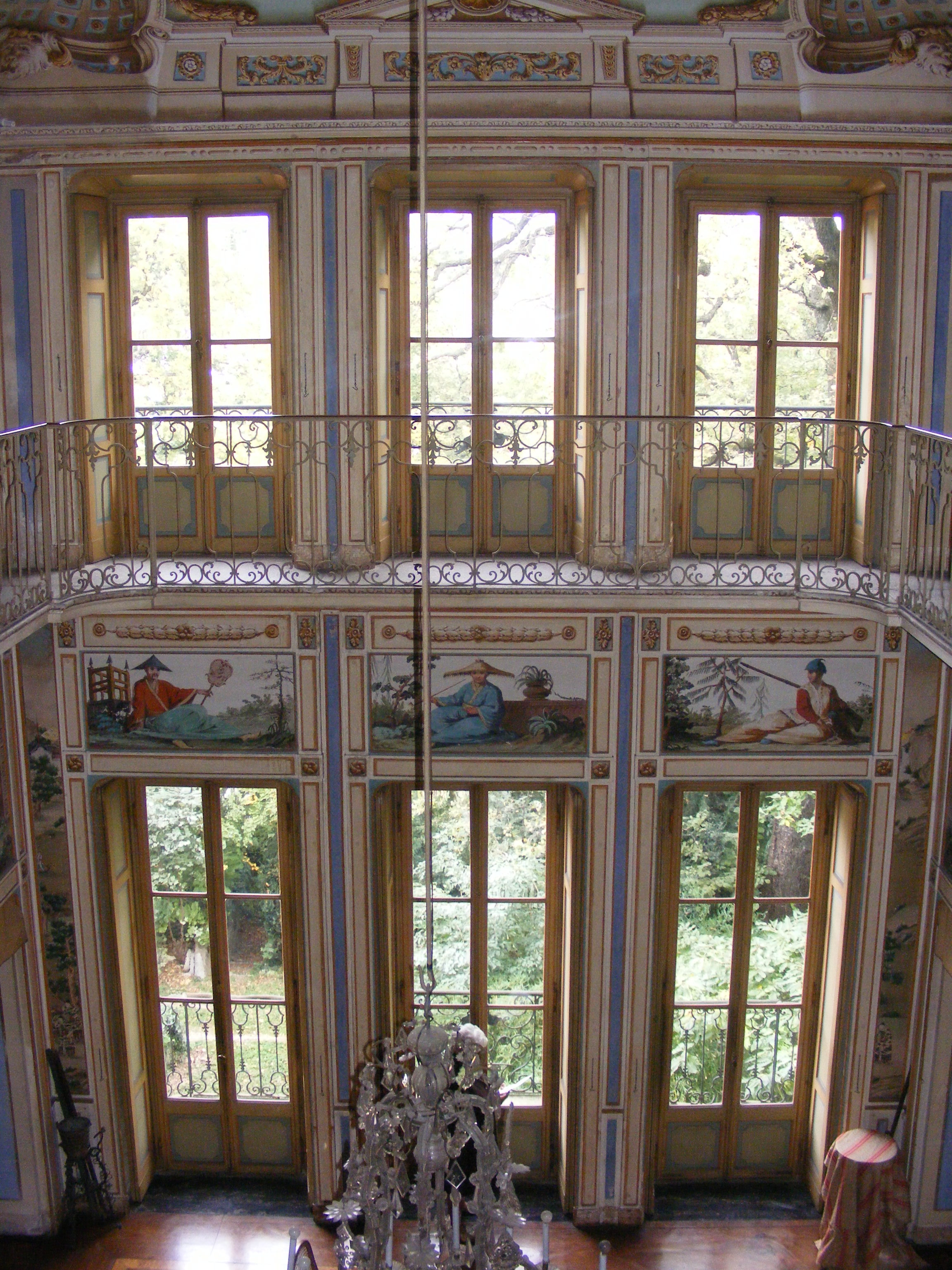 salone cinese